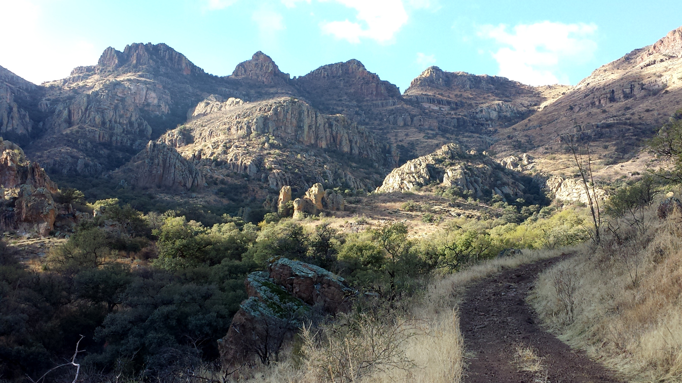 AZ - SANTA CRUZ & COCHISE COUNTY